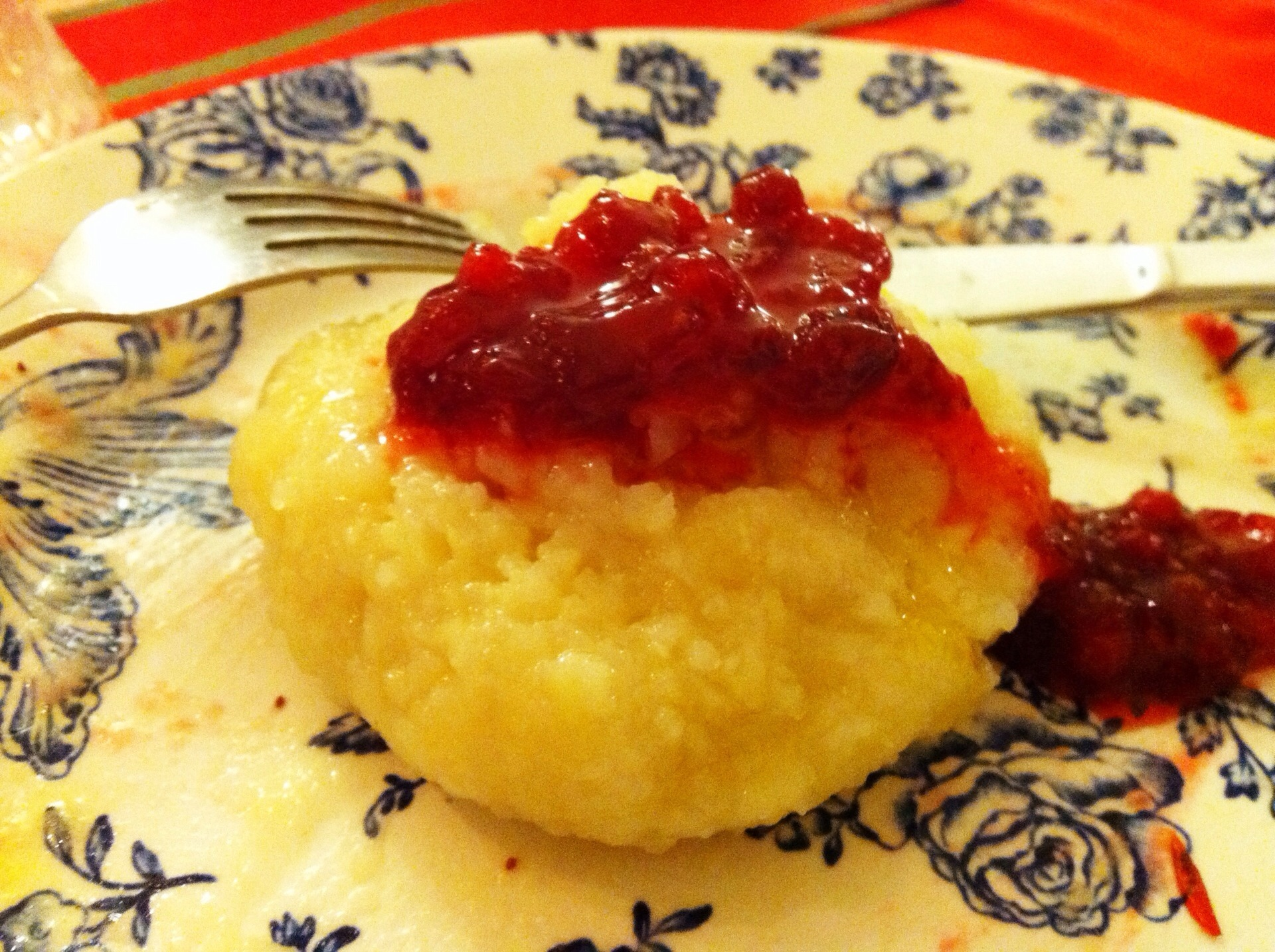 Homemade palt on a plate with lingonberry jam and butter. This fläskpalt has pork pieces inside.